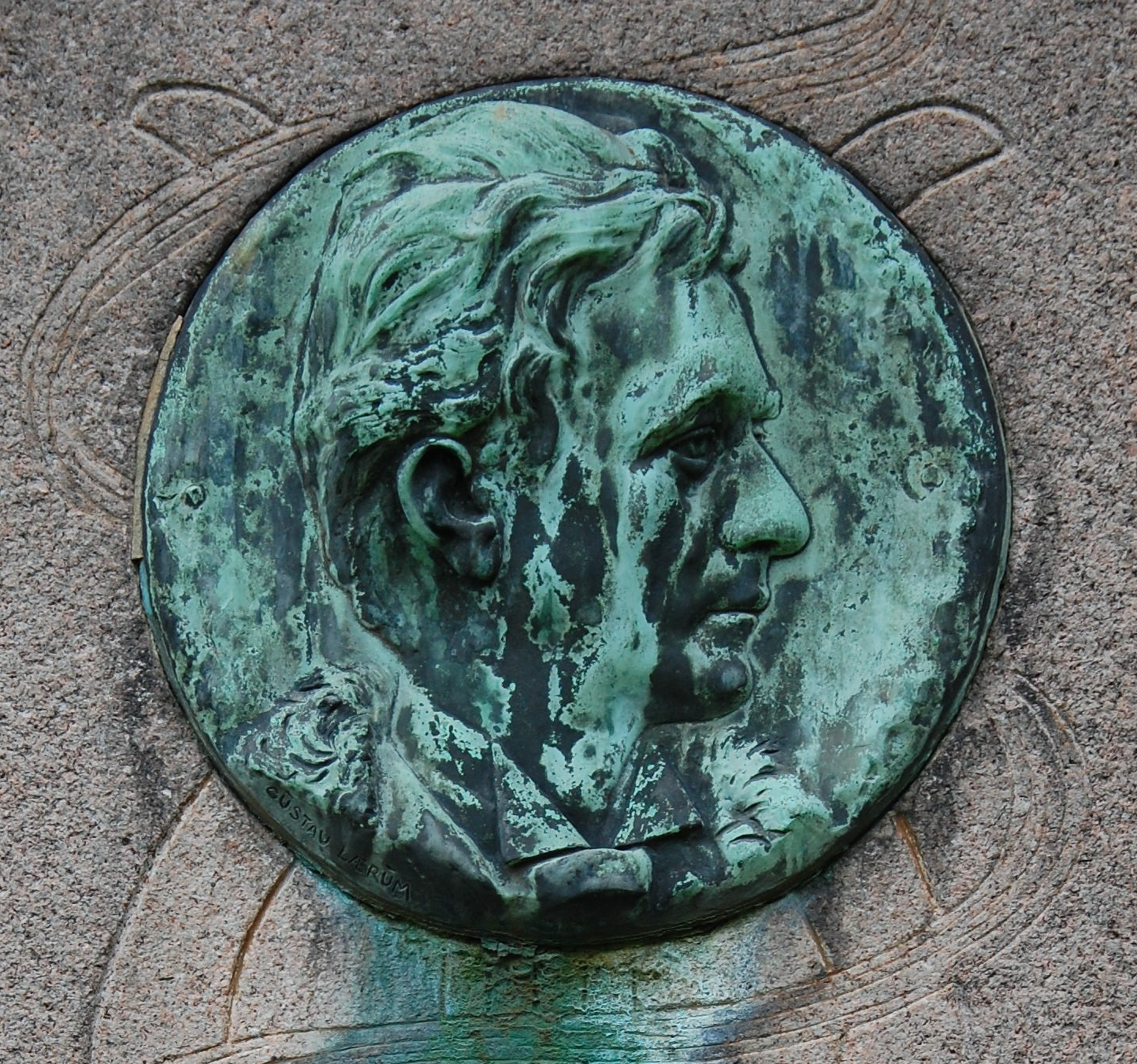 Pianist Martin Knutzen (1863–1909), grave at Vår Frelsers gravlund, Oslo, Norway. Portrait medaillon in bronze from 1910 by Gustav Lærum.